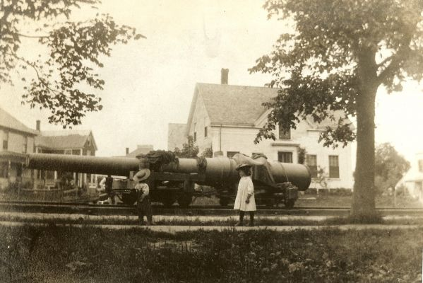 Large gun (either 10-inch or 12-inch) headed to Fort Williams via the Preble Street trolley tracks in South Portland, Maine.